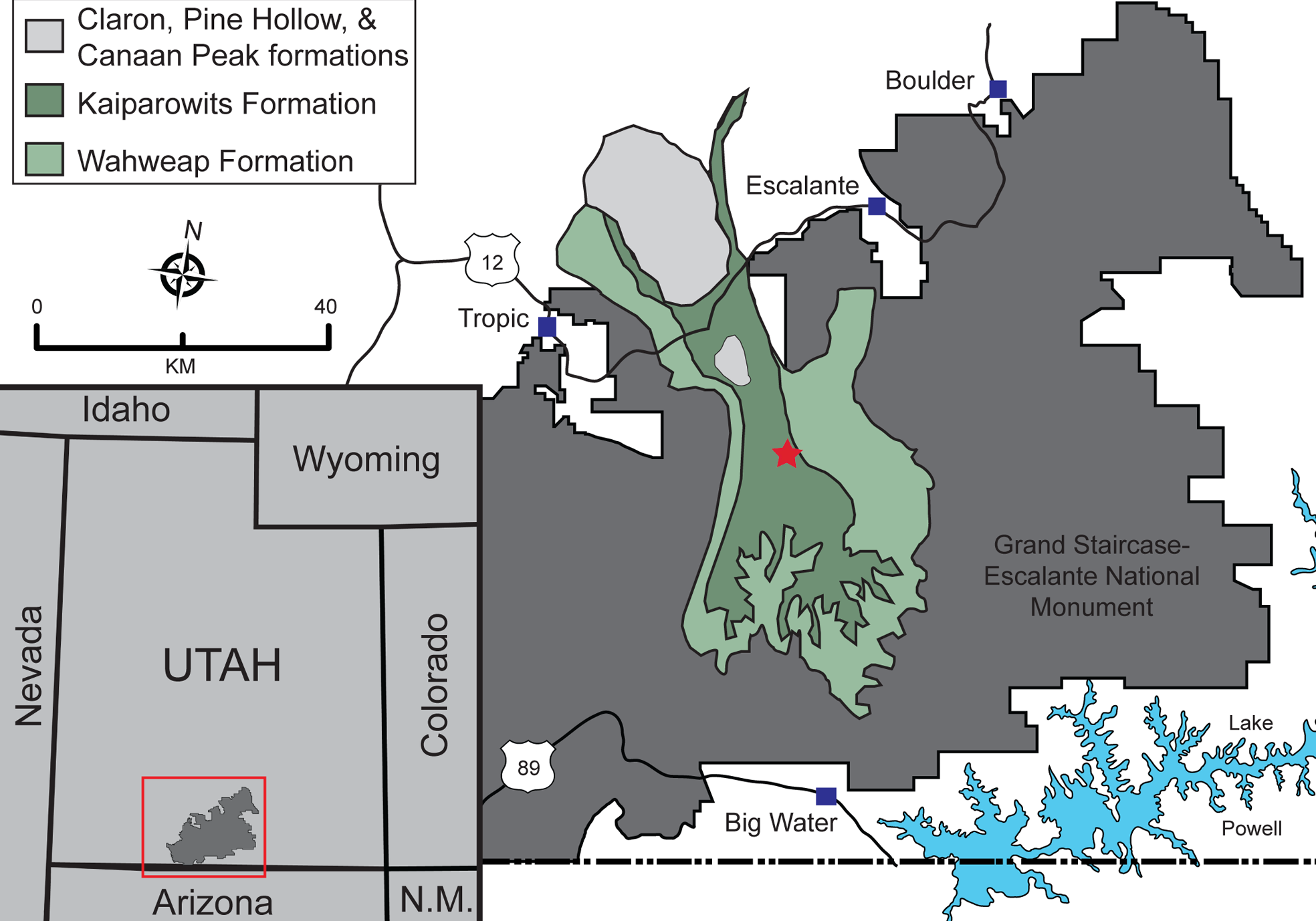 Locality map: Grand Staircase-Escalante National Monument, southern Utah. Map showing locality (indicated by star) of Kosmoceratops richardsoni holotype UMNH VP 17000 and assigned subadult UMNH VP 16878, recovered from the Kaiparowits Formation of Grand Staircase-Escalante National Monument (GSENM). GSENM is bounded by the red rectangle and silhouetted in dark gray on the inset of Utah and surrounding states (modified from [1]). The original map has been modified to show Kosmoceratops instead of Machairoceratops as in the original source. New location based on map in Ceratopsid Dinosaurs from the Grand Staircase of Southern Utah, page 489.